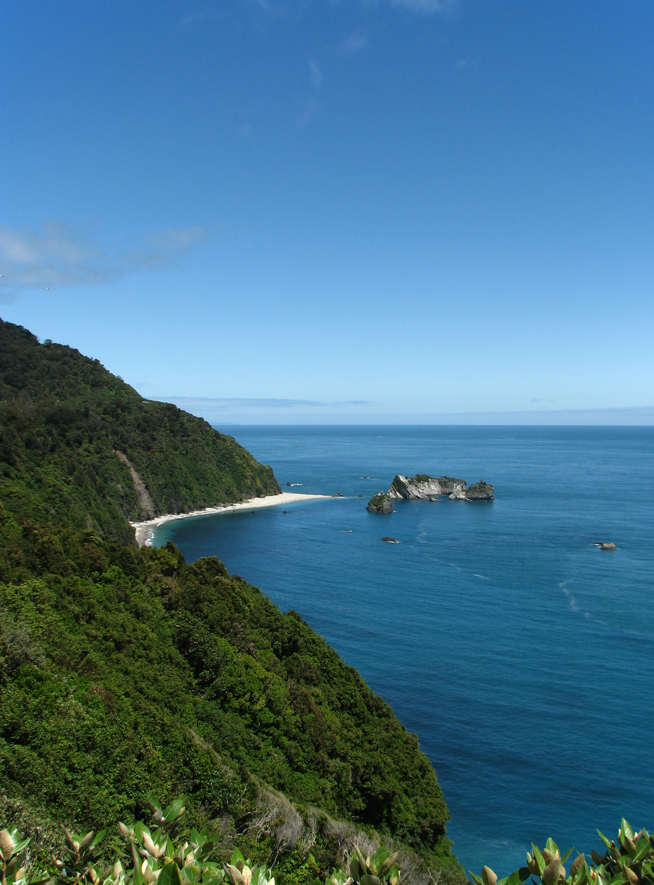 A view from Knight's Point, New Zealand.